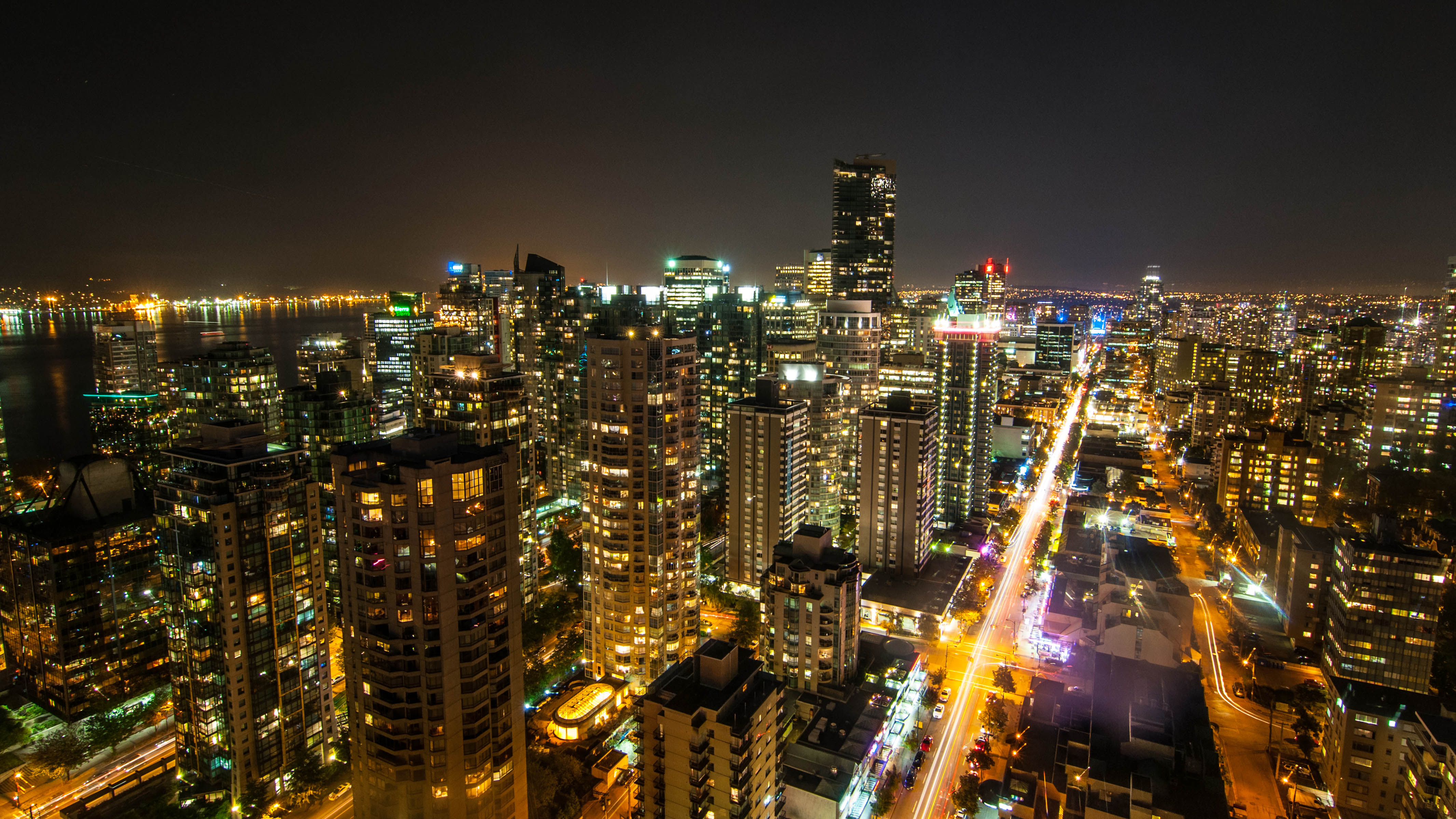 Robson Street from Cloud 9 Restaurant, Empire Hotel, Vancouver, British Columbia, Canada.